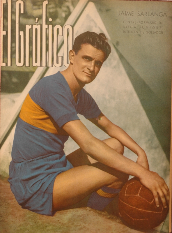 Argentine scorer forward Jaime "Piraña" Sarlanga during his tenure on Boca Juniors.